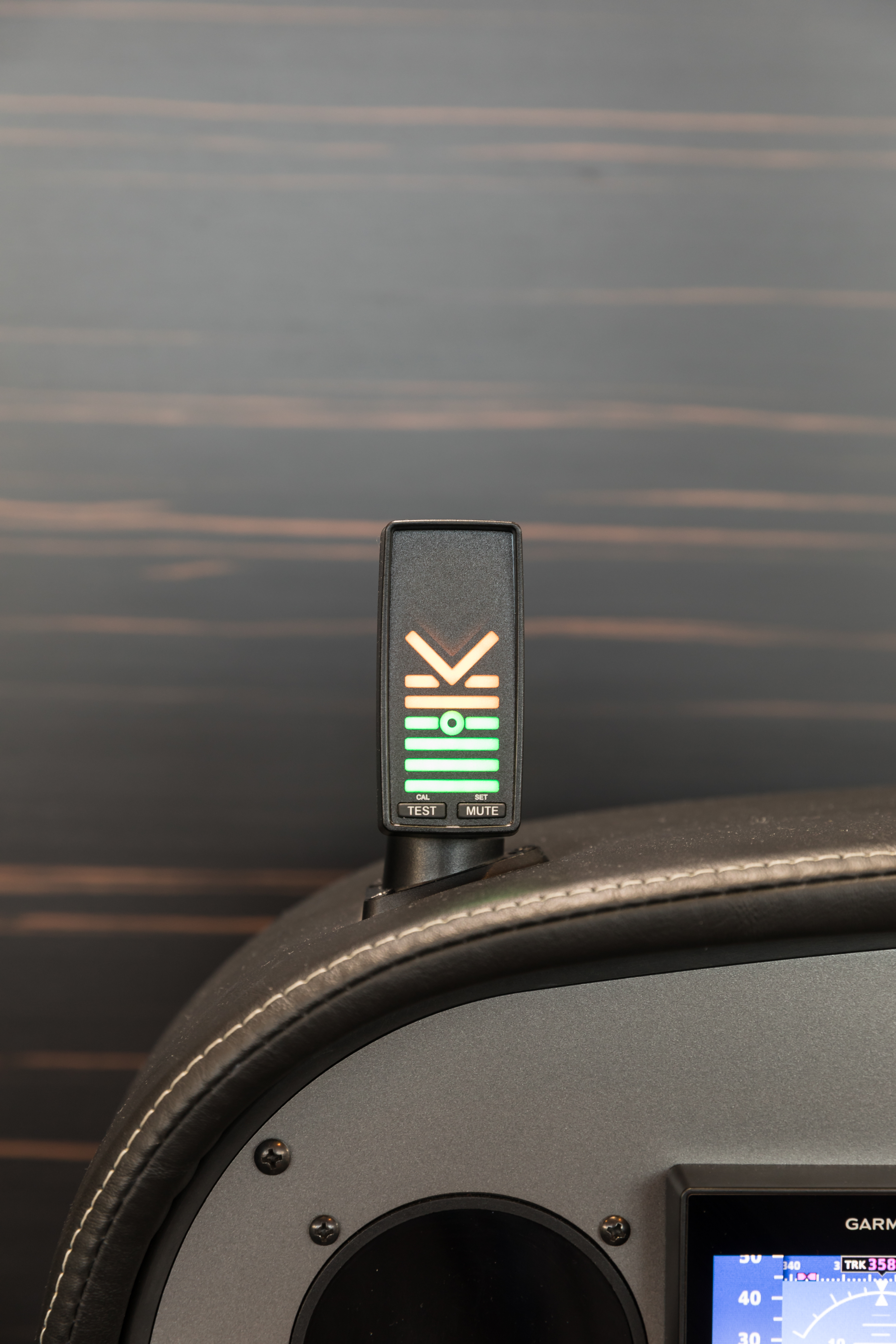 Angle of attack indicator, AERO Friedrichshafen 2018